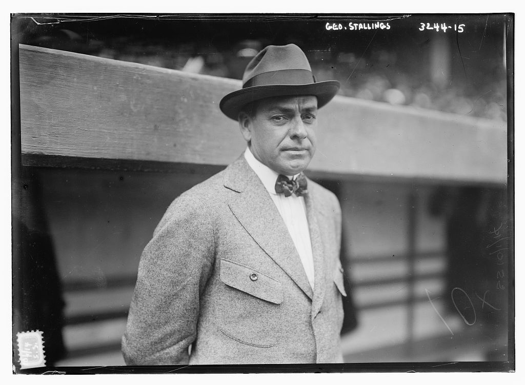 George Tweedy Stallings in 1914